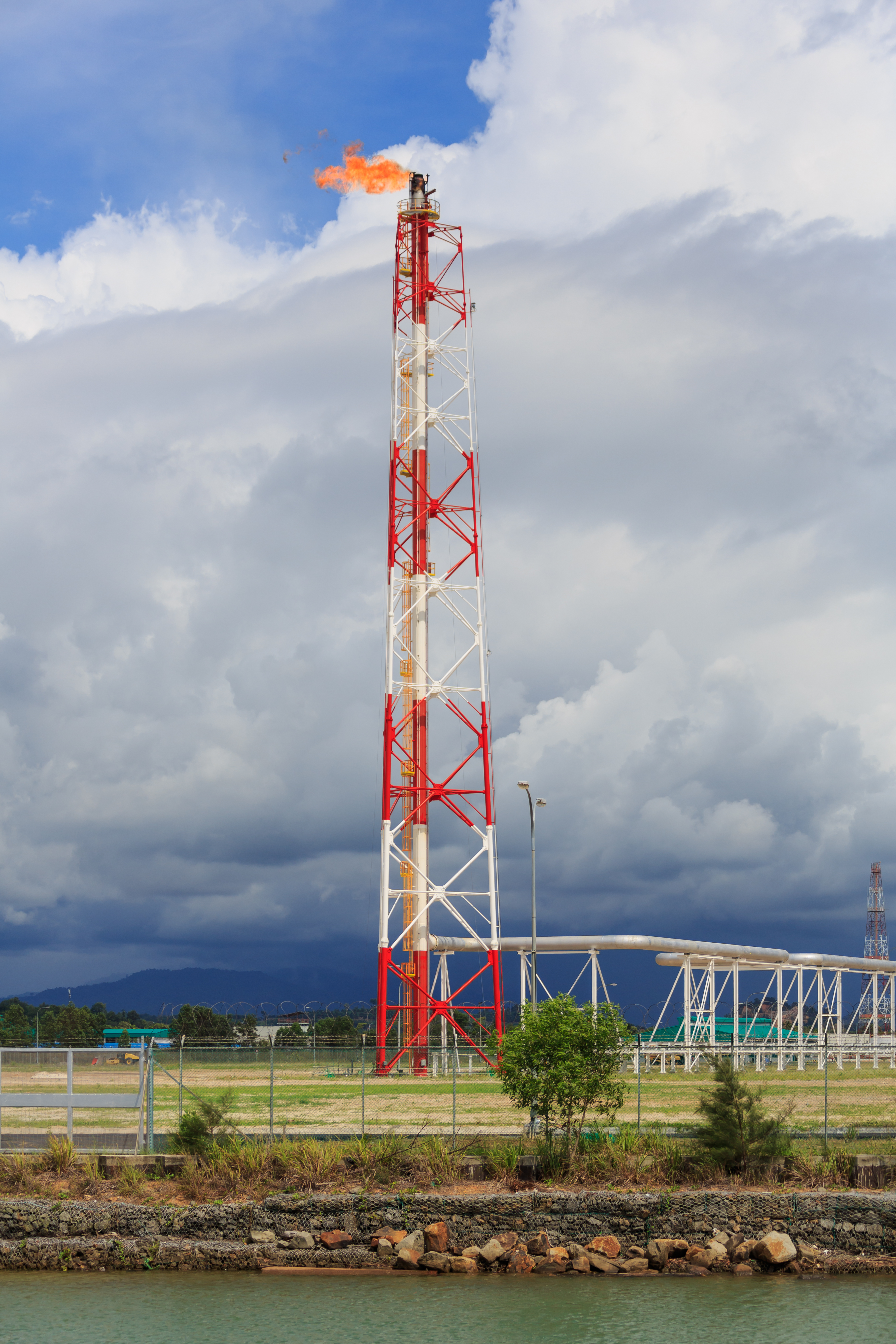 Kimanis, Sabah: Flare of SOGT Kimanis (Sabah Oil and Gas Terminal) while a thunderstorm is approaching from Crocker Ranges.